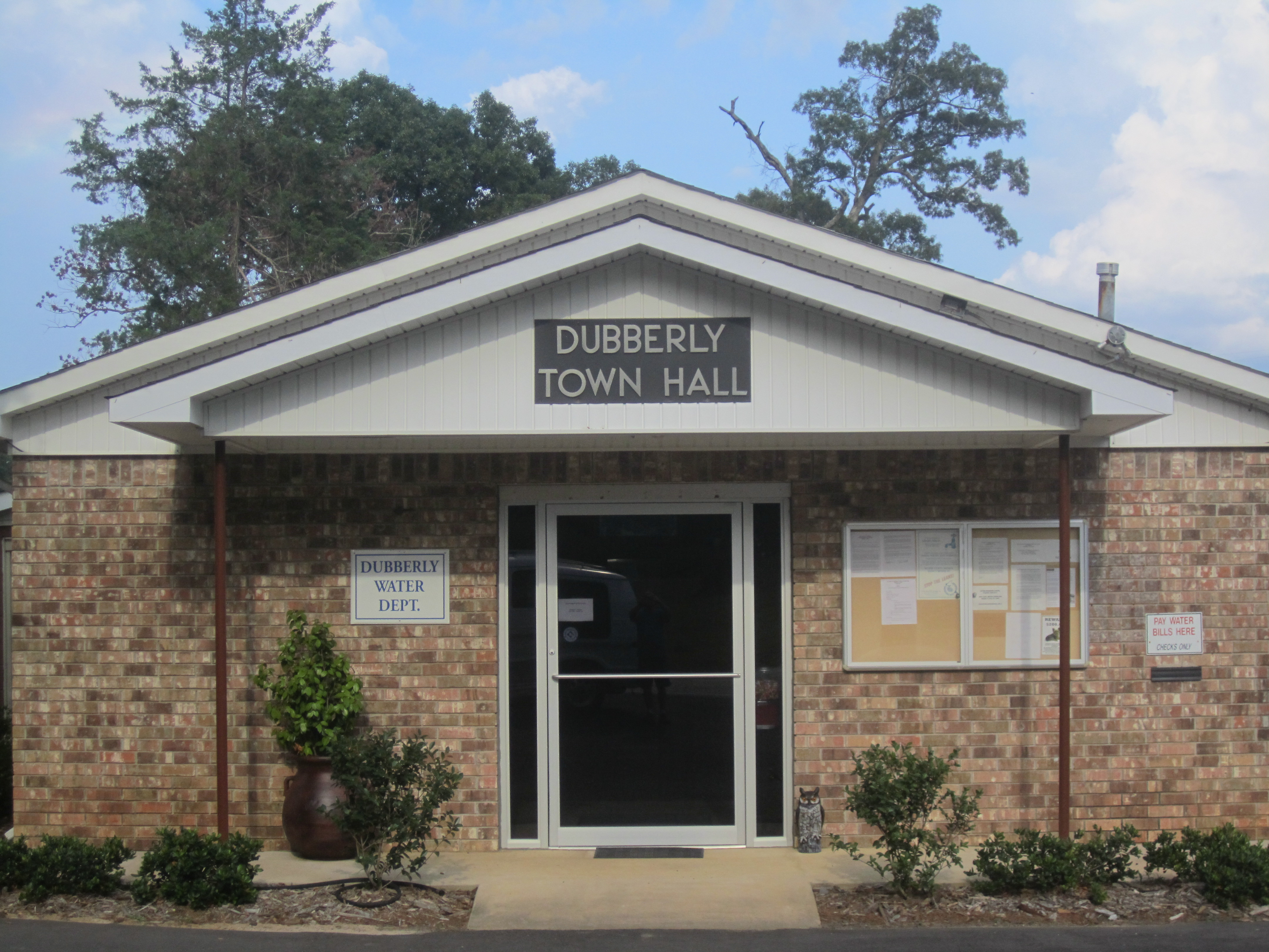 I took photo with Canon camera in Dubberly, LA.